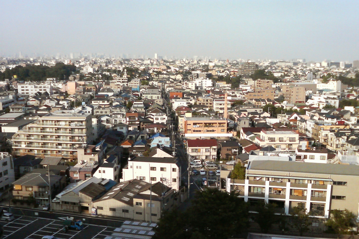 Scenery of Unoki seen from park-house Tamagawa